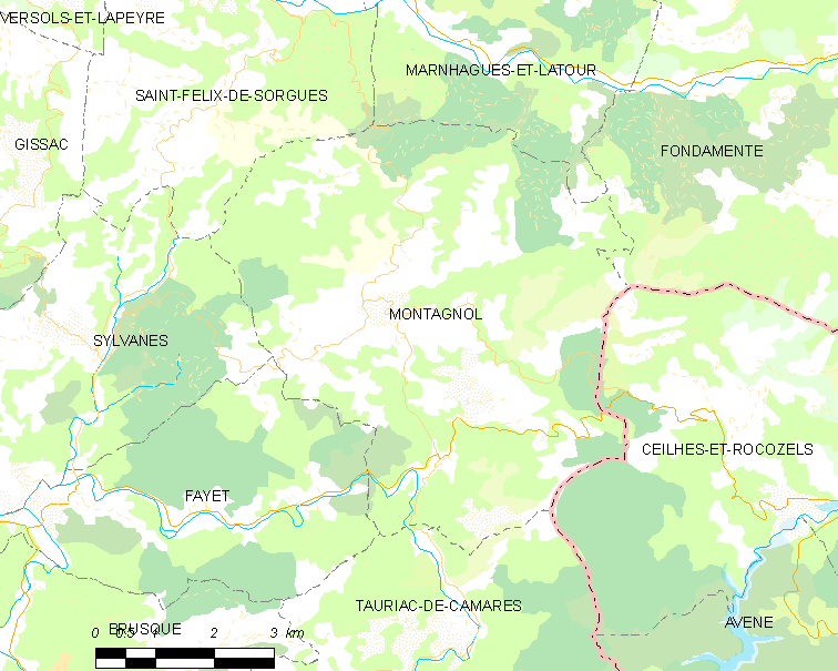 Map commune FR insee code 12147.png - Montagnol